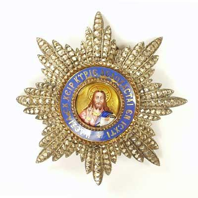 Star of the Order of the Redeemer, Greece.